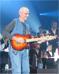 Dan Ar Braz with a Bagad at a concert in Lorient, Brittany